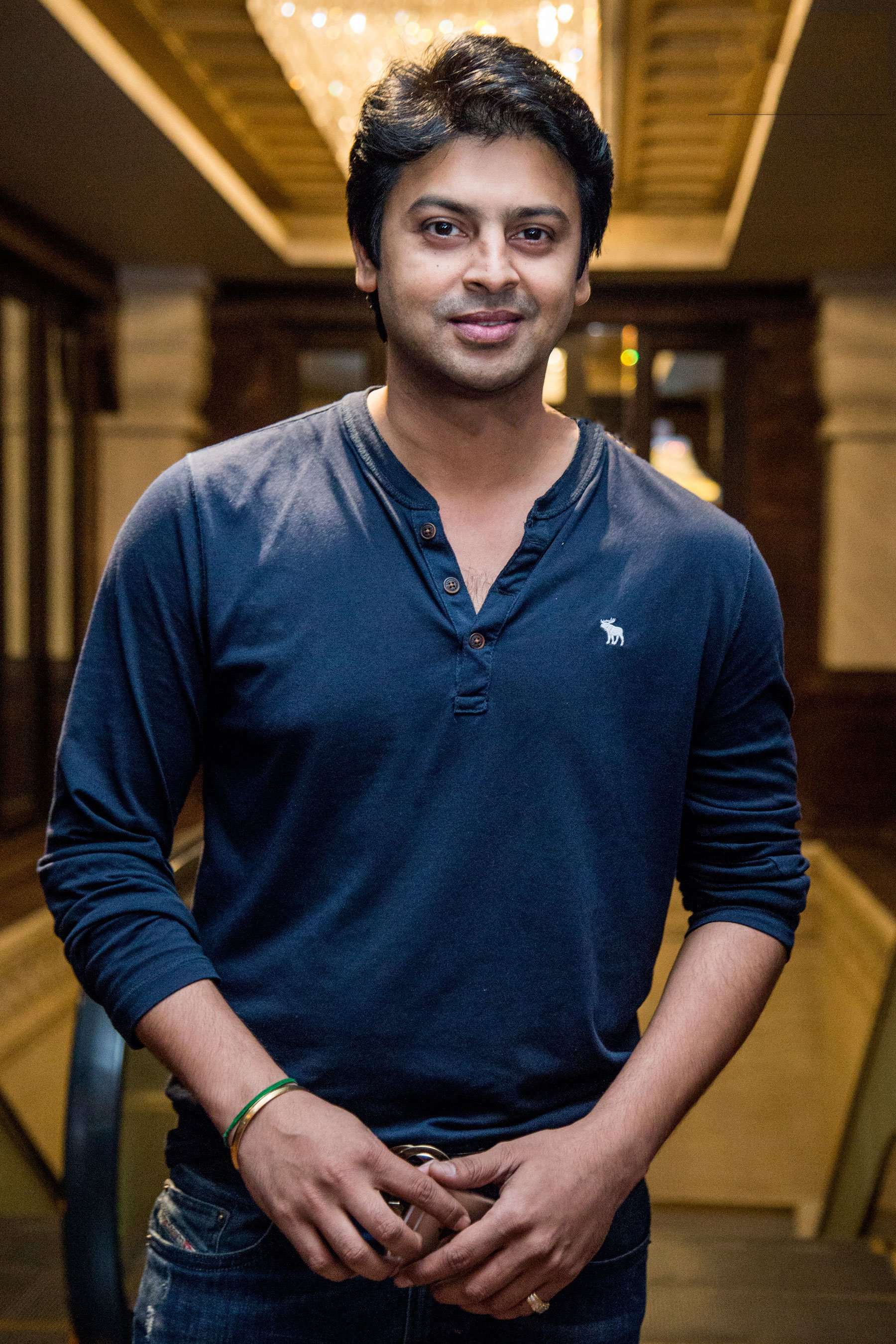 Srikanth at the Curtain Raiser of Chepauk Super Gillies